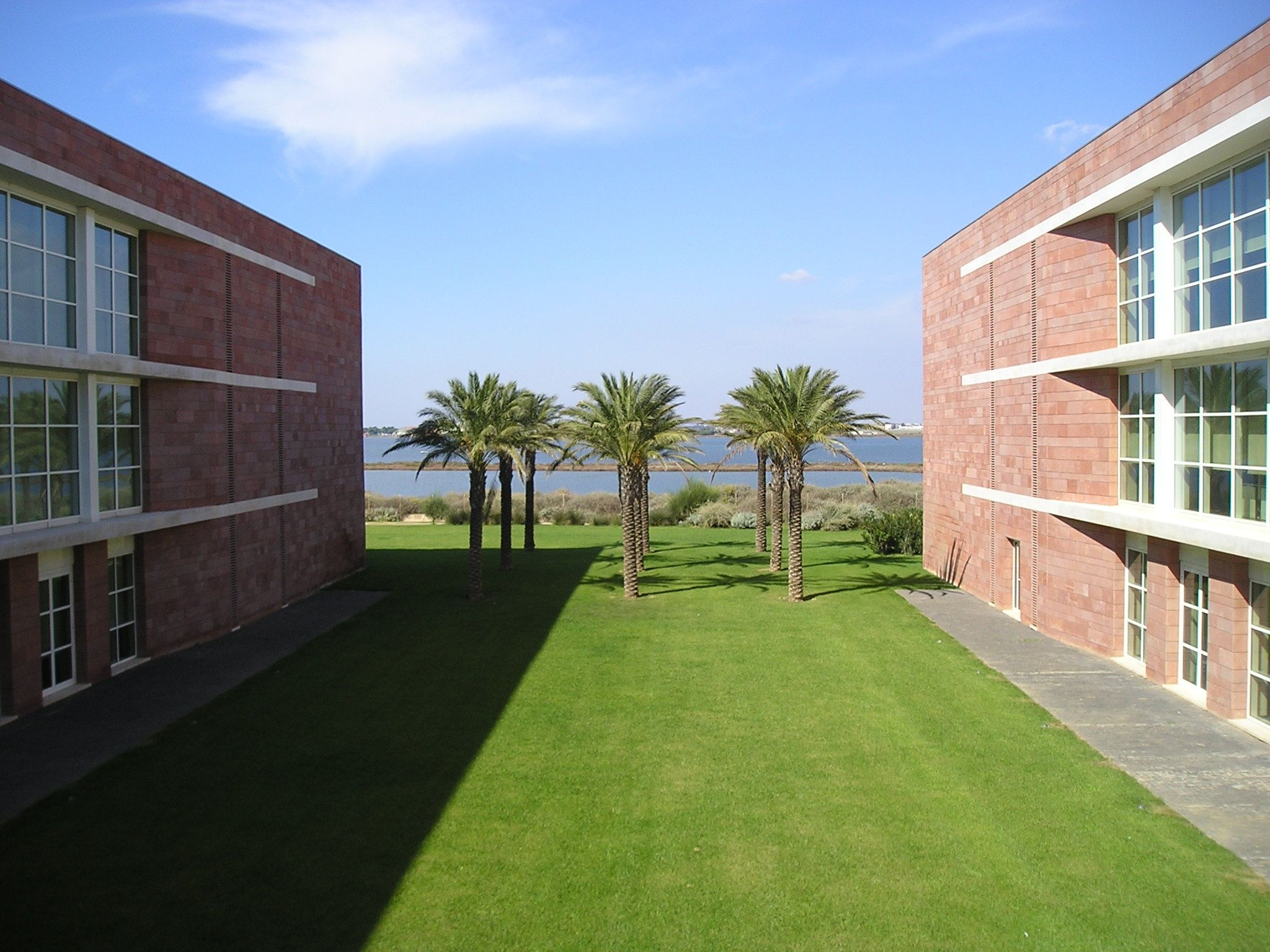 Tiscali s.p.a. (BIT: TIS) is an Italian telecommunications company, based in Cagliari, Sardinia, that provides internet and telecommunications services to its domestic market. It previously had operations in other European nations through its acquisition of many smaller European Internet Service Providers (ISPs) in the late 1990s, but in subsequent years these have been divested.